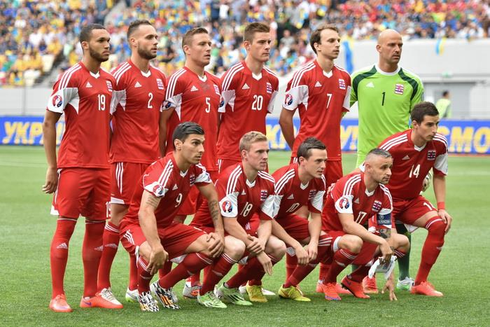 Ukraine vs Luxembourg 14062015 UEFA EURO 2016 Qualifying round - Group C